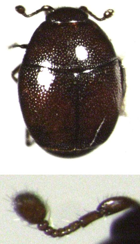 adult Acritus nigricornis